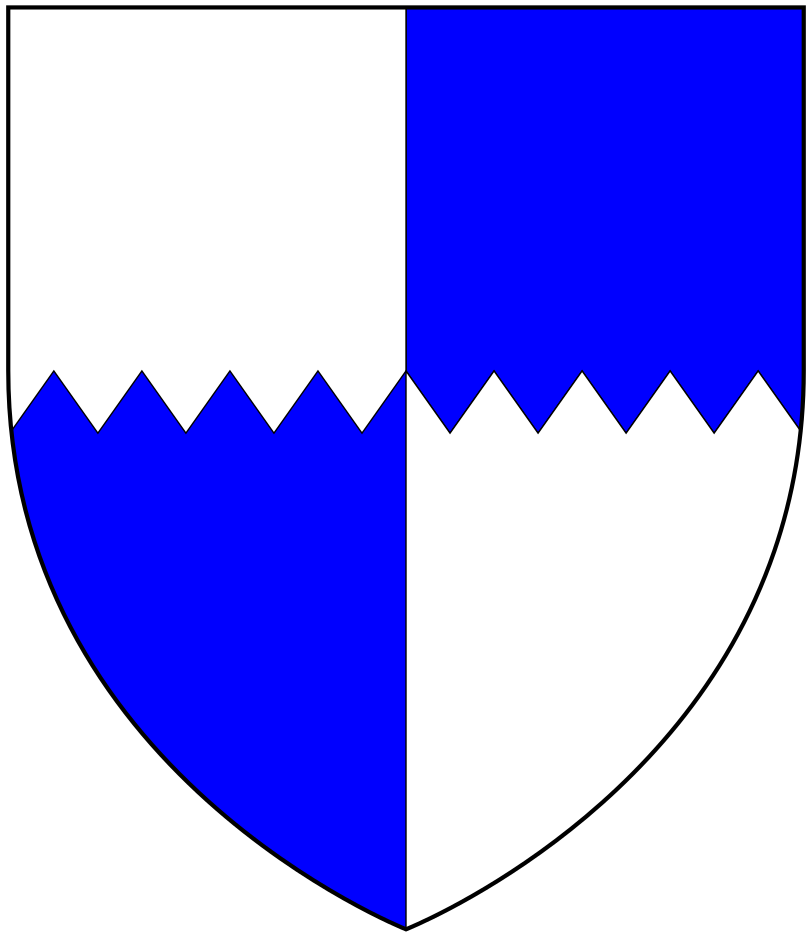 Arms of de Acton family, mediaeval lords of the manor of Iron Acton, Gloucestershire: Quarterly per fess indented argent and azure